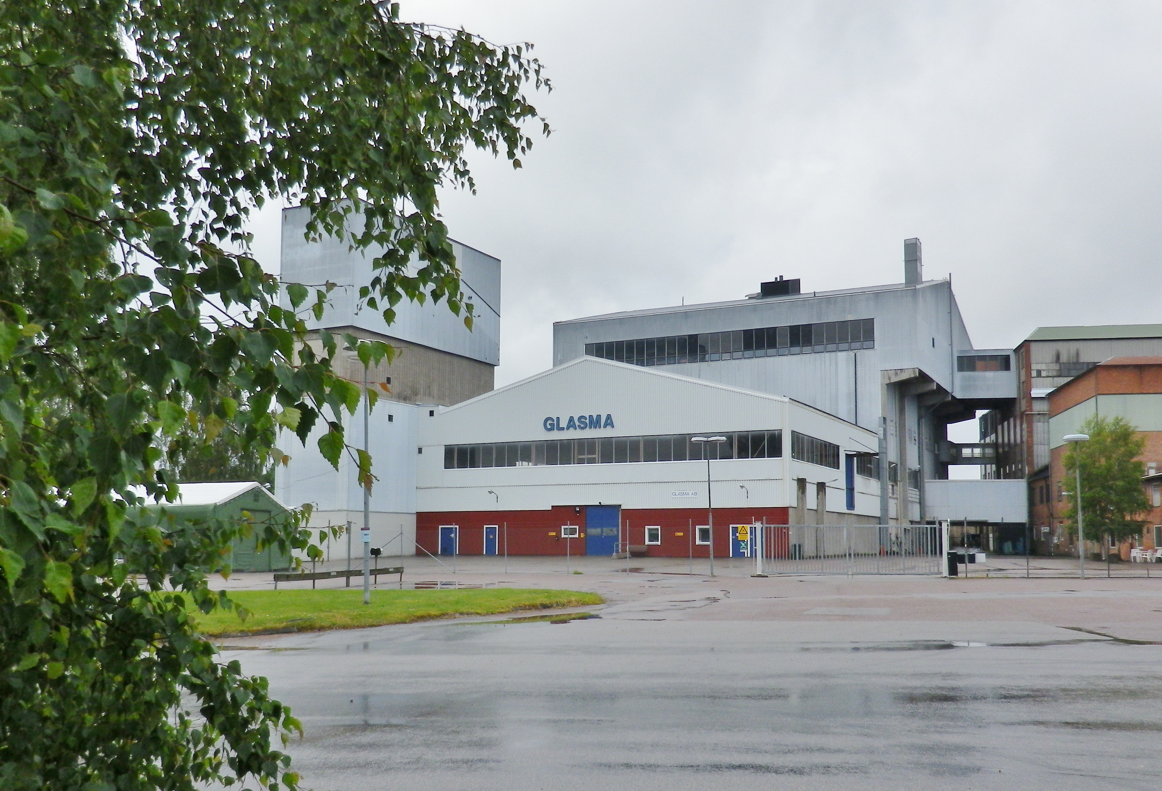 Emmaboda glassworks.